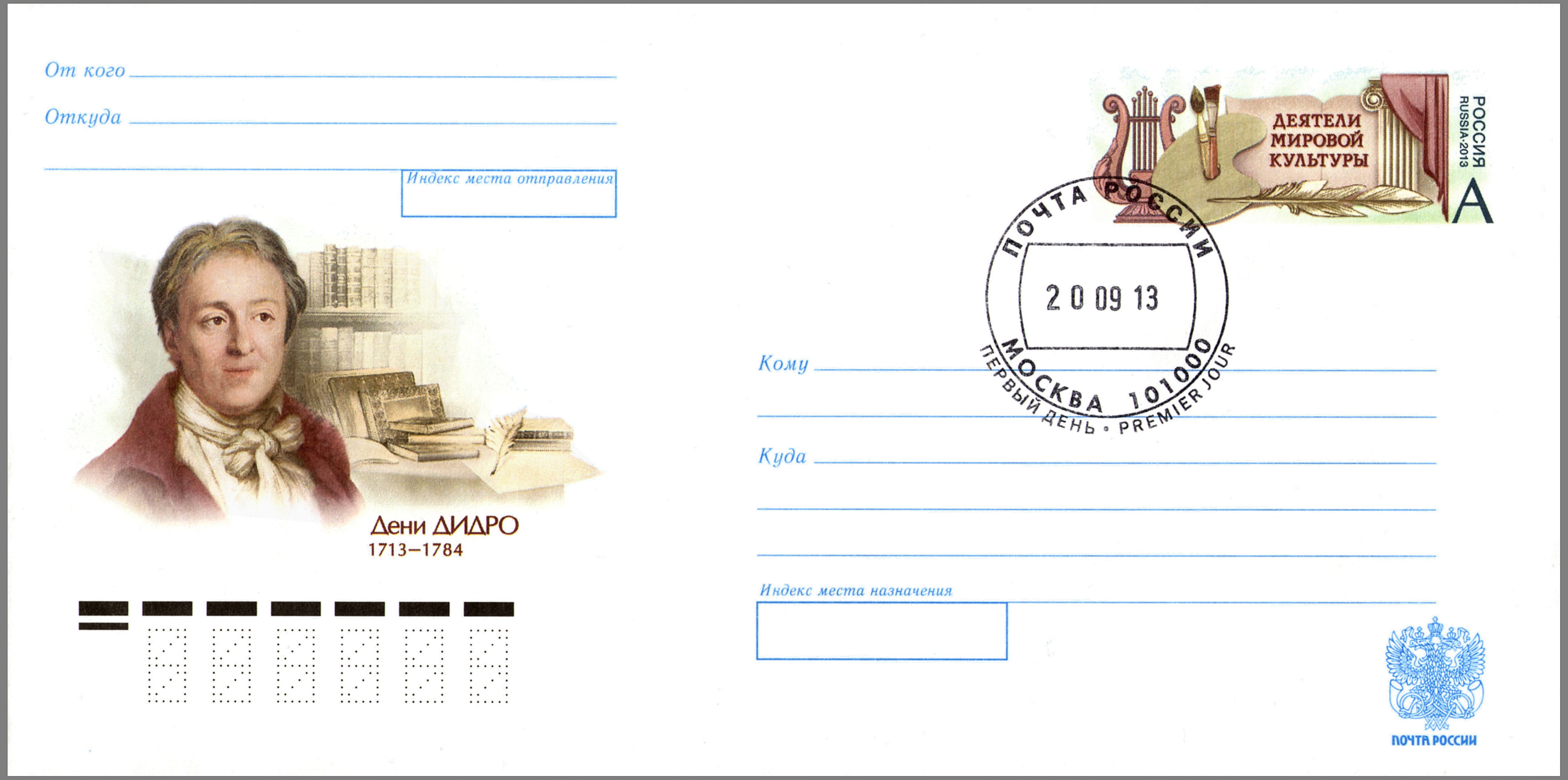 Figures of the World Culture (an ongoing series of postal stationery envelopes). The 300th birth anniversary of Denis Diderot (1713—1784), a French writer and philosopher, a prominent figure of the Enlightenment. The illustrated postal stationery envelope with commemorative stamp, Russia, 20 September 2013. PTC Marka Catalogue No 246/кор-13. Envelope paper VBM (ВБМ) with watermarks “ПОЧТА РОССИИ”. Offset printing. Size of the envelope: 110×220 mm. Print run: 1,000,000. The non-denominated stamp of the ongoing series with symbols of arts (“Letter A”, for domestic letters, weight 20 g or less). The illustration: the portrait of Denis Diderot. The cancellation with the universal first day postmark, Moscow, 20 September 2013.